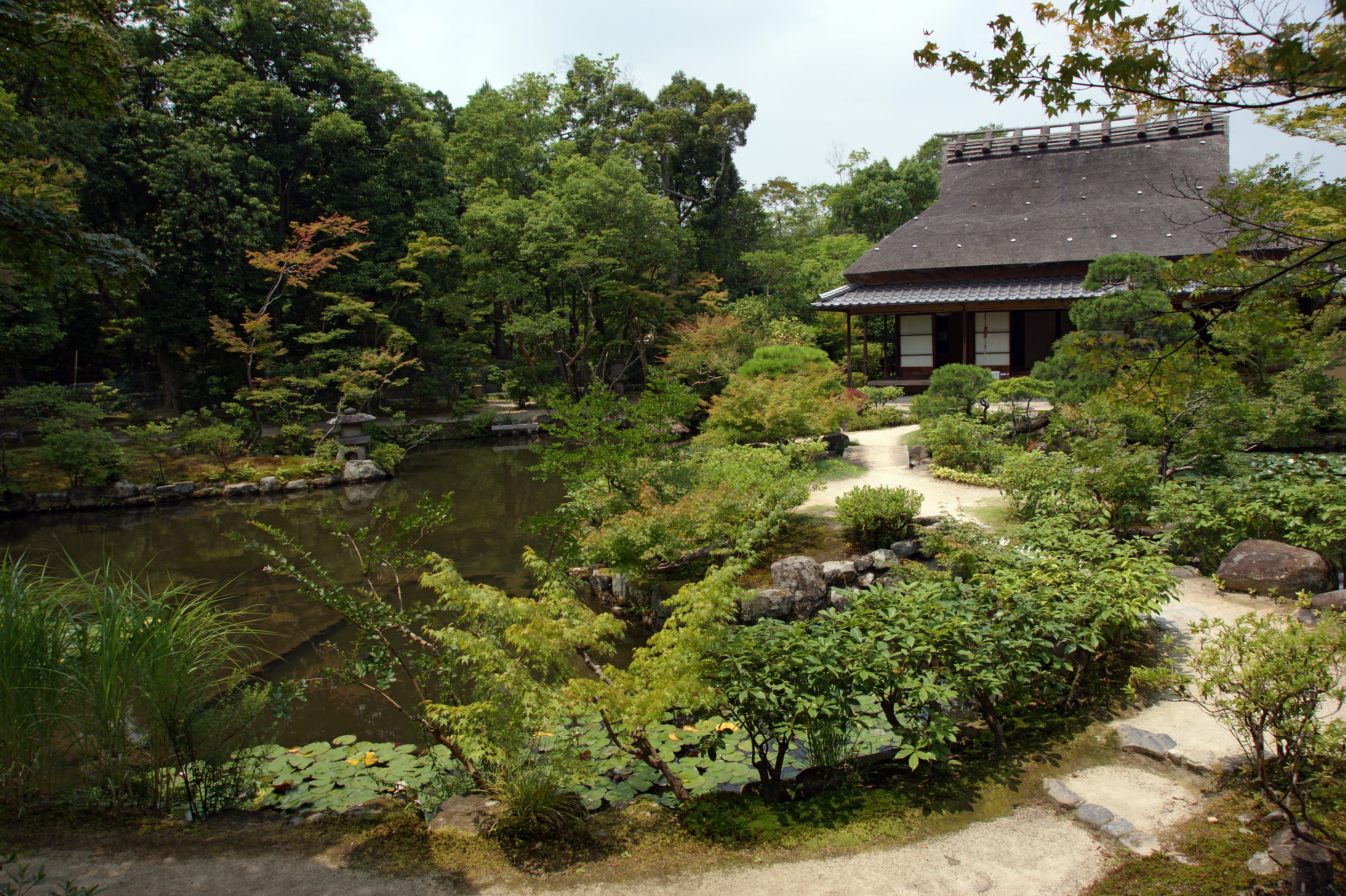 Isuien in Nara, Nara prefecture, Japan